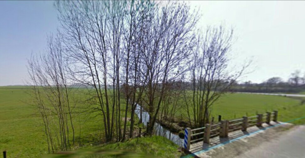 A view of the Bièvre Creek (an affluent of the Bar River) from the D12 Rd. (within the boundaries of that commune called La Guinguette St.) crossing him NW of Brieulles-sur-Bar, the Ardennes dept., Grand Est, France.